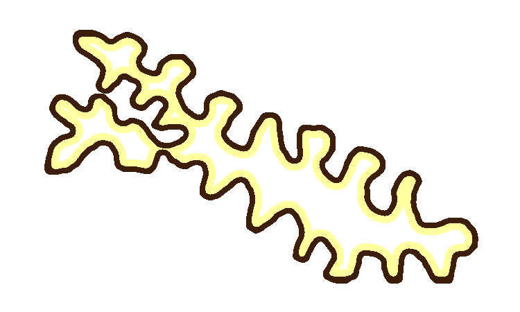 Watercolor illusion, with brighter line on the inside.